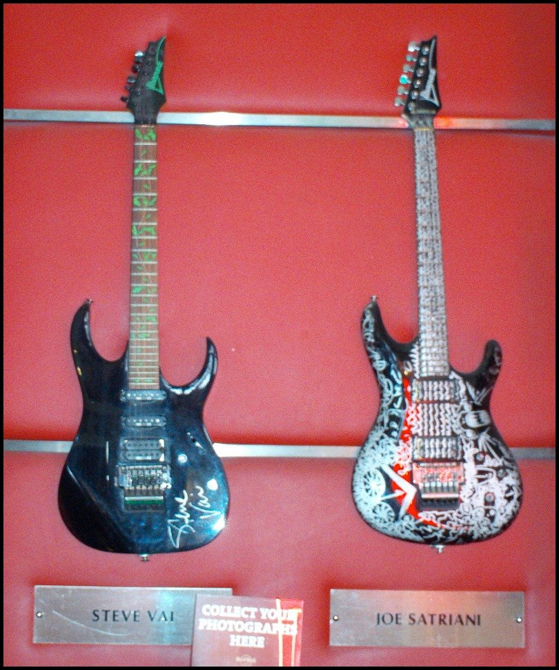 Steve Vai and Joe Satriani's guitars hanging in Hard Rock Cafe London